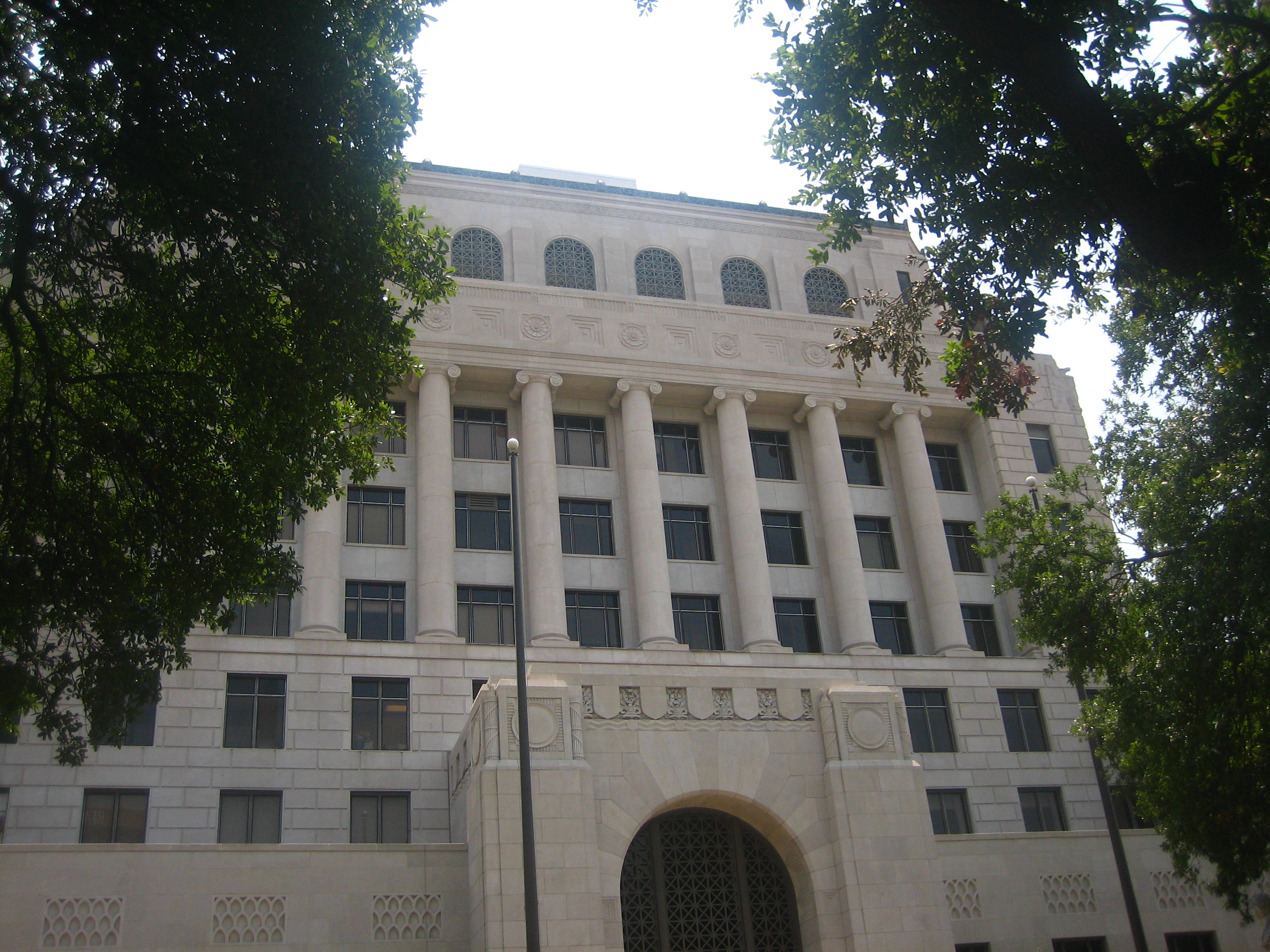 The upper tier of the Caddo Parish Courthouse on Texas Street in Shreveport. The courthouse caught the eye of Harry S. Truman who hired its architect Edward F. Neild to design Jackson County Courthouse in Kansas City, Missouri. Neild would ultimately die while designing the Truman Library.